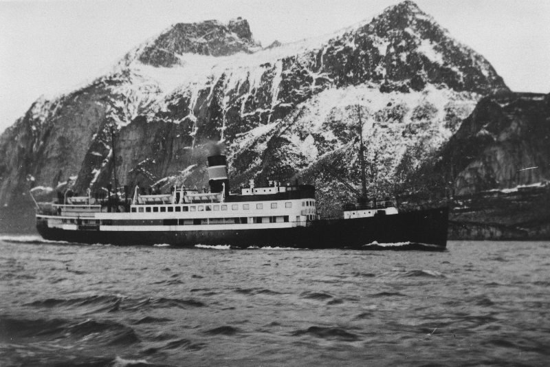 Norwegian coastal express ship (Hurtigruten) DS Lofoten near Bodø in 1932.